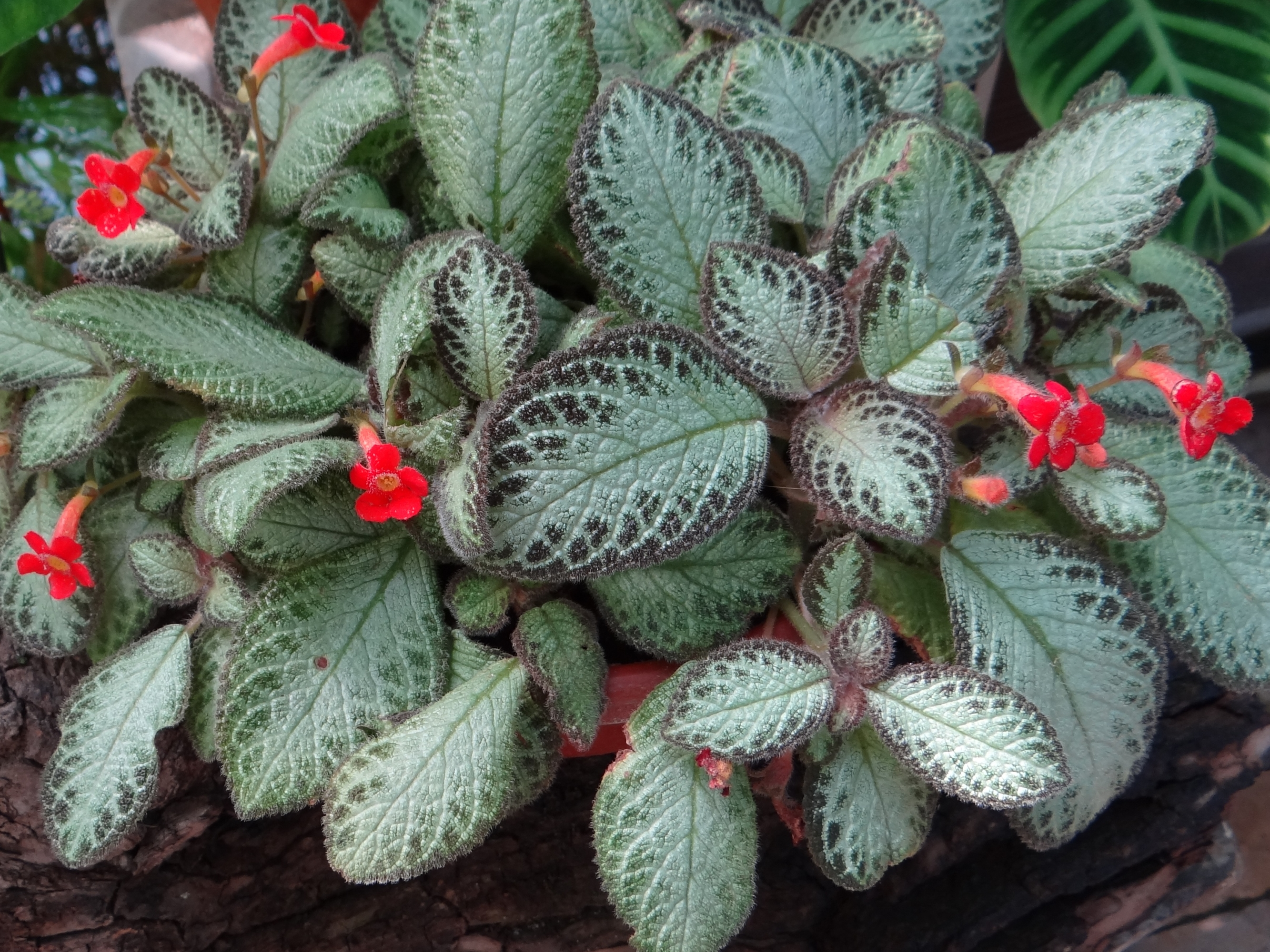 Episcia cupreata 'Silver Sceen' (location:Botanical Garden in Cracow)